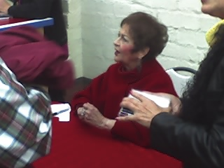 Gogi Grant in 2006